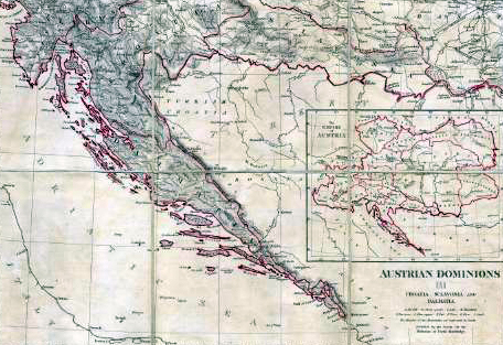 Map of Dalmatia, Croatia, and Sclavonia. Engraved by Weller for the Society for the Diffusion of Useful Knowledge under the Supervision of Charles Knight, dated Jan 1. 1852.